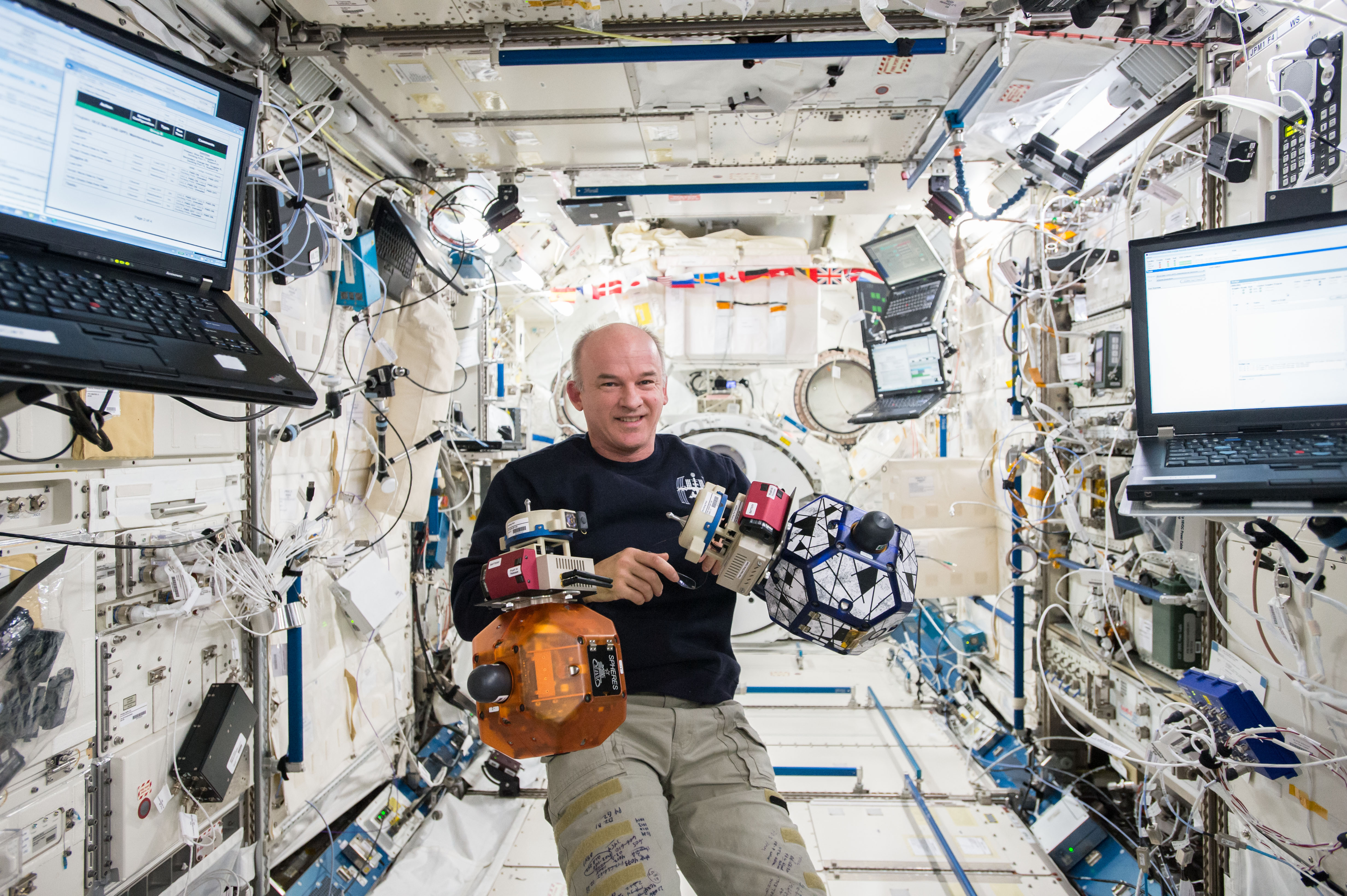 Expedition 48 Commander Jeff Williams monitors bowling ball-sized internal satellites known as SPHERES (Synchronized Position Hold, Engage, Reorient, Experimental Satellites) during a maintenance run in the Japanese Kibo Laboratory Module.